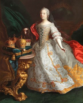 Mária Terézia, a magyarok királynője